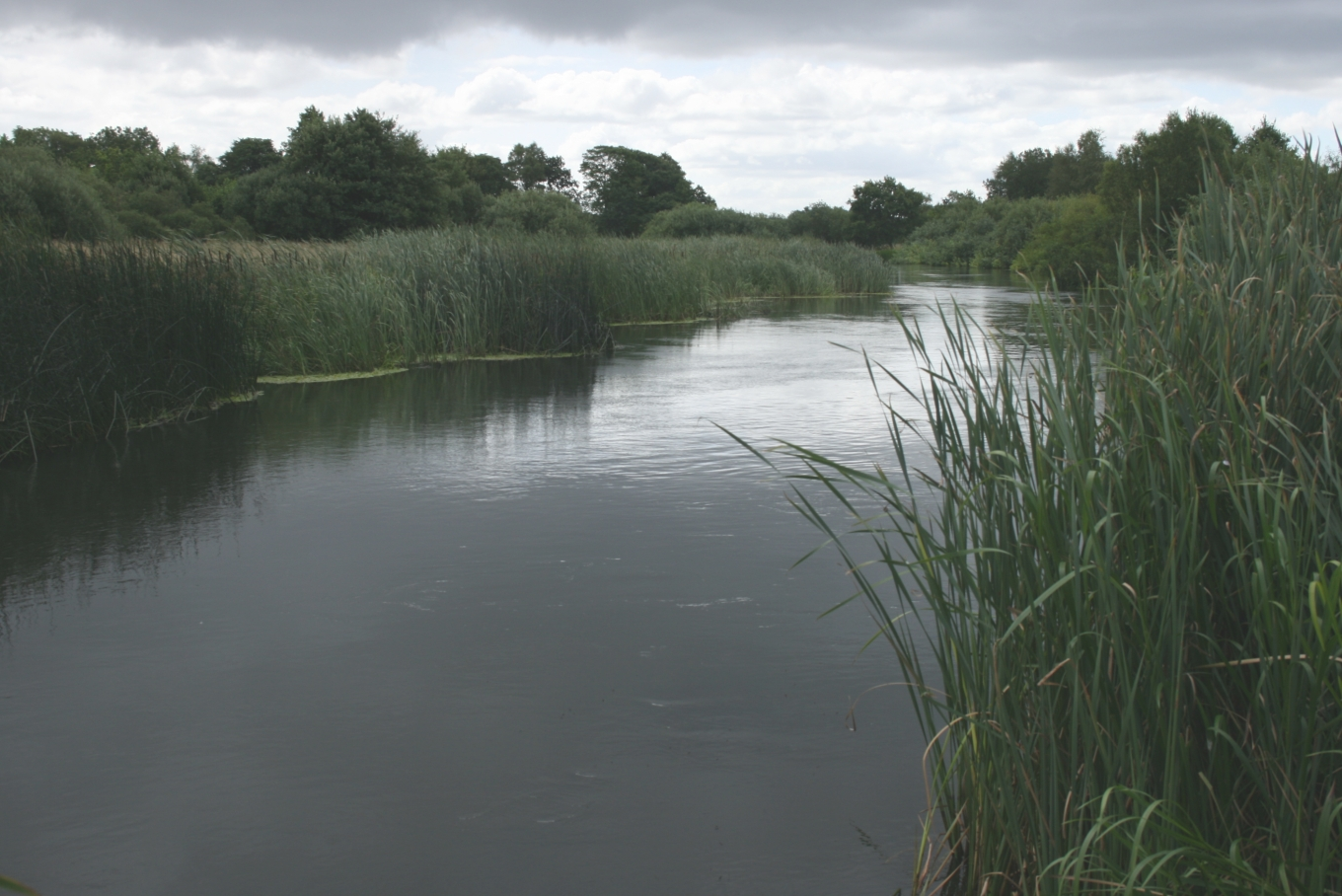 River Gudenå near Svostrup looking upstream.